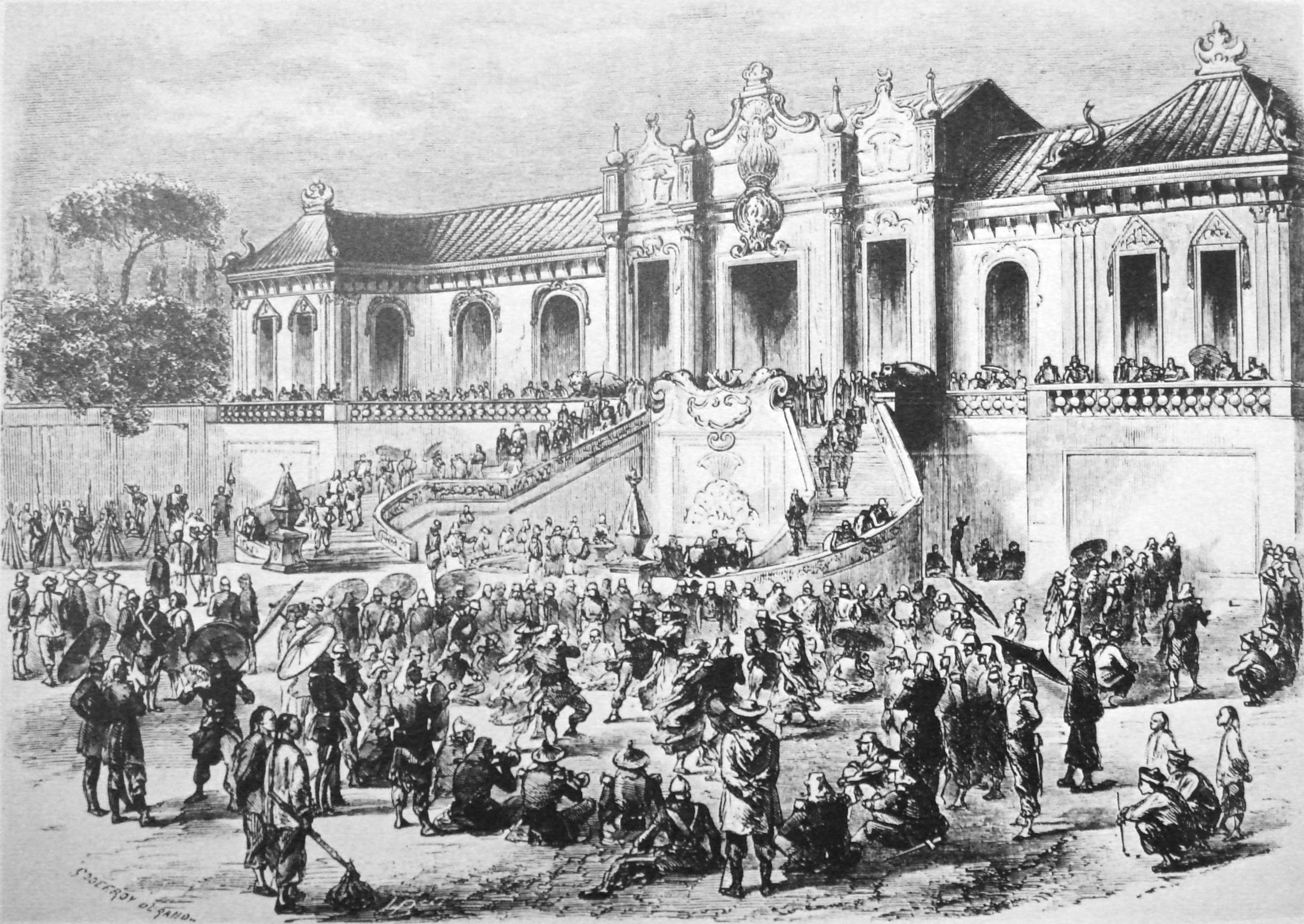 Looting_of_the Yuan Ming Yuan pavilion by Anglo-French forces in_1860. Formerly in the Xiyang Lou (Western mansions) section, of structures and gardens. On the grounds of the Yunamingyuan (Old Summer Palace) — in Beijing.